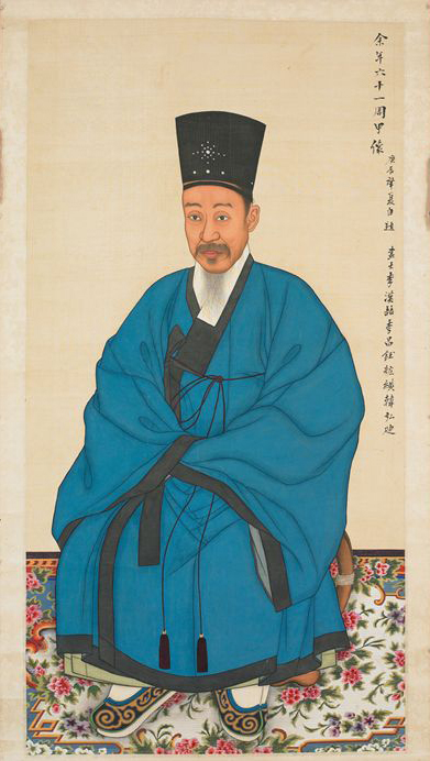 Portrait of Heungseon Daewongun, Yi Haeung wearing Bokgeon and Simeui